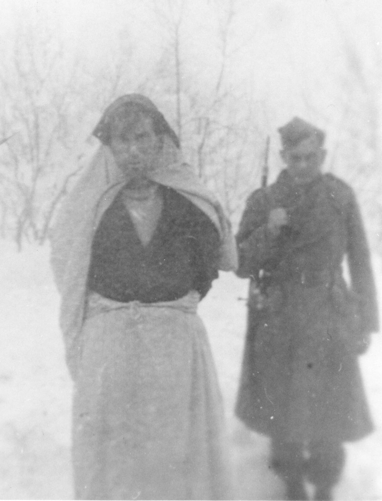 Photograph of an Ustasha, disguised as a woman, captured by Yugoslav Partisans of the 6th Krajina Brigade. Belgrade, Museum of Yugoslav History, Inv. br. III-16111